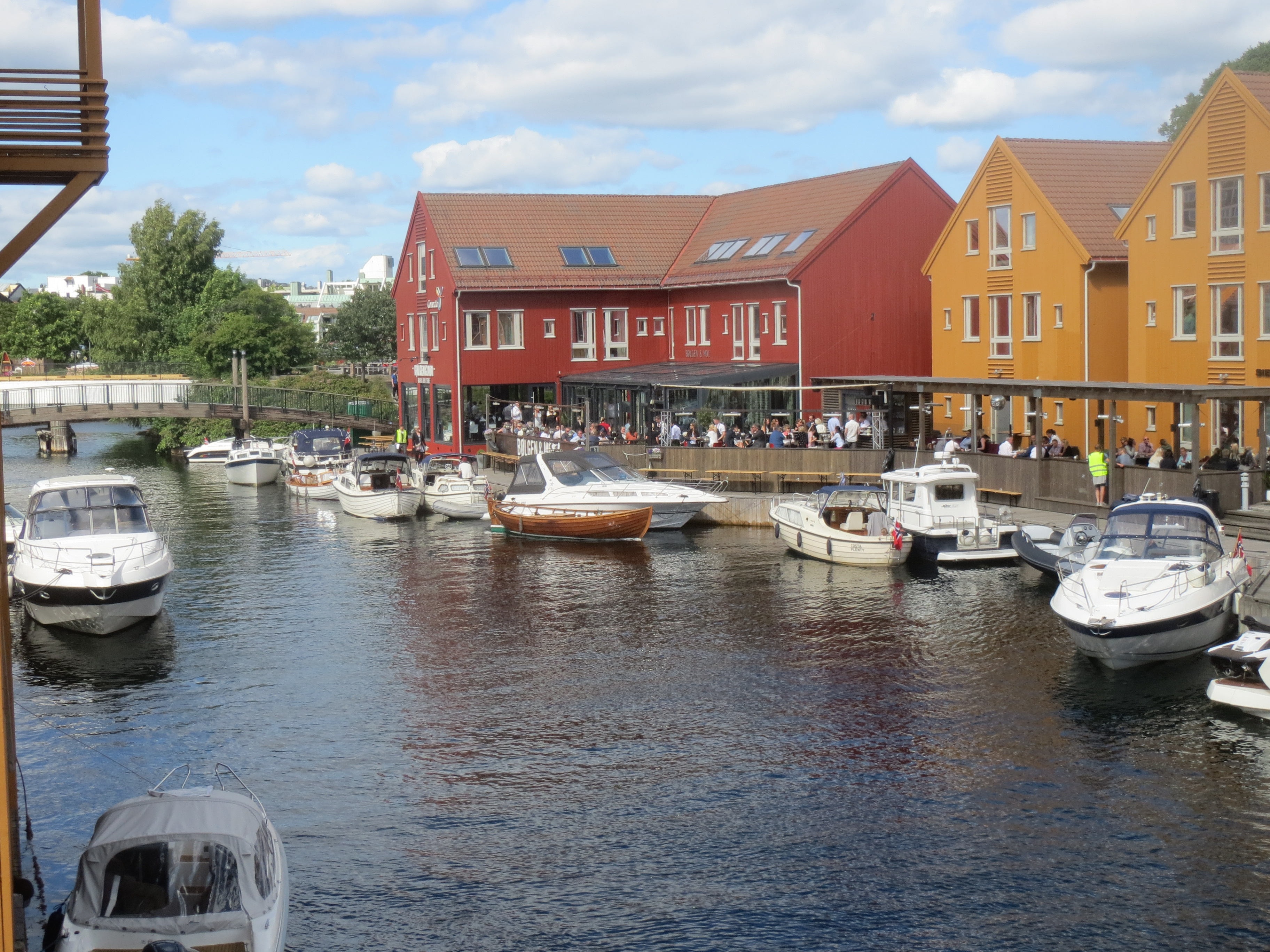 Gravanekanalen by Fiskebrygga, Kristiansand, Norway